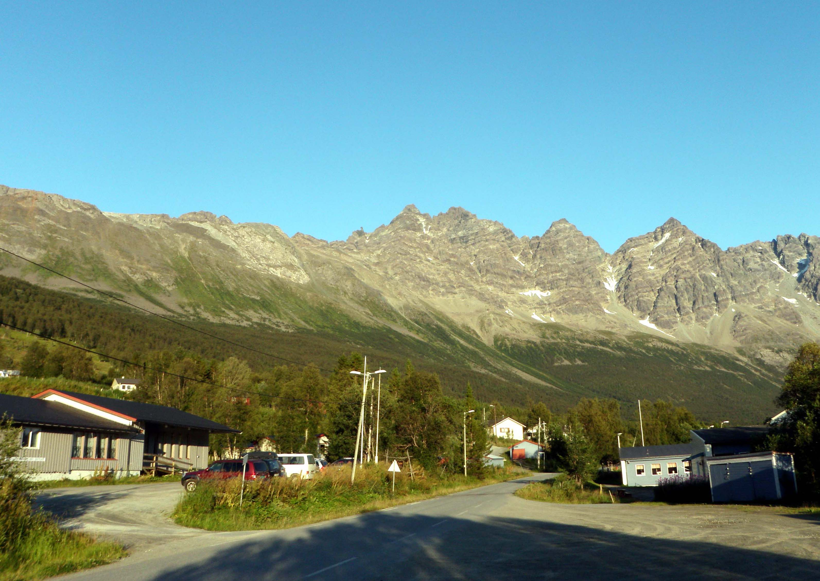 Lakselvbukt, in Tromsø, Troms, Norway. On the left is the Gáisi Giellaguovddáš Sami language centre, and on the right is Lakselvbukt school.